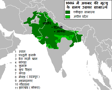 The Mughal Empire at Akbar's death in 1605. Fully integrated territories in dark green, dependent territories in light green